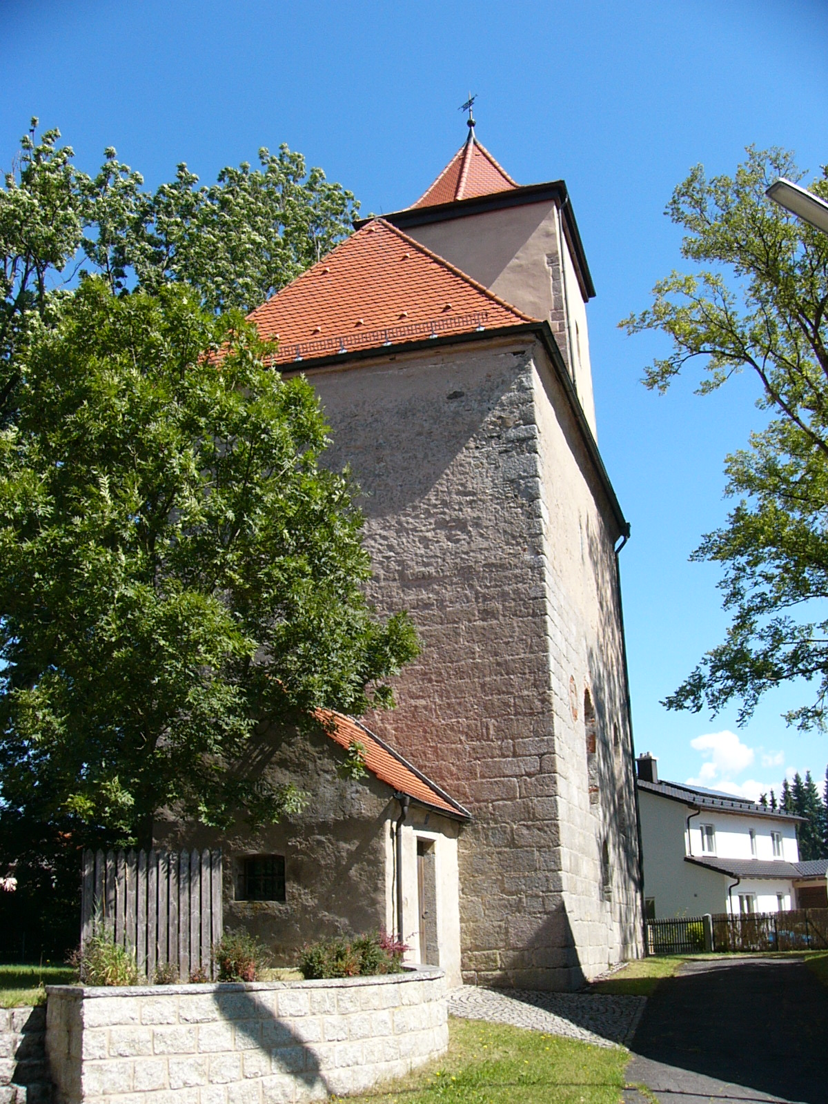 Schönkirch bei Plößberg